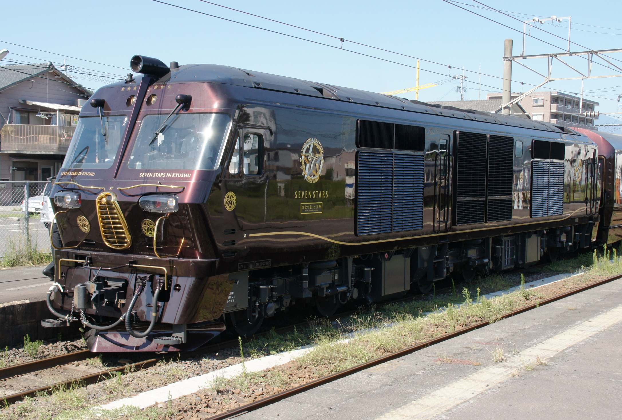 JR Kyushu Class DF200 diesel locomotive DF200-7000 on a test run hauling the Seven Stars in Kyushu luxury cruise train at Hayato Station